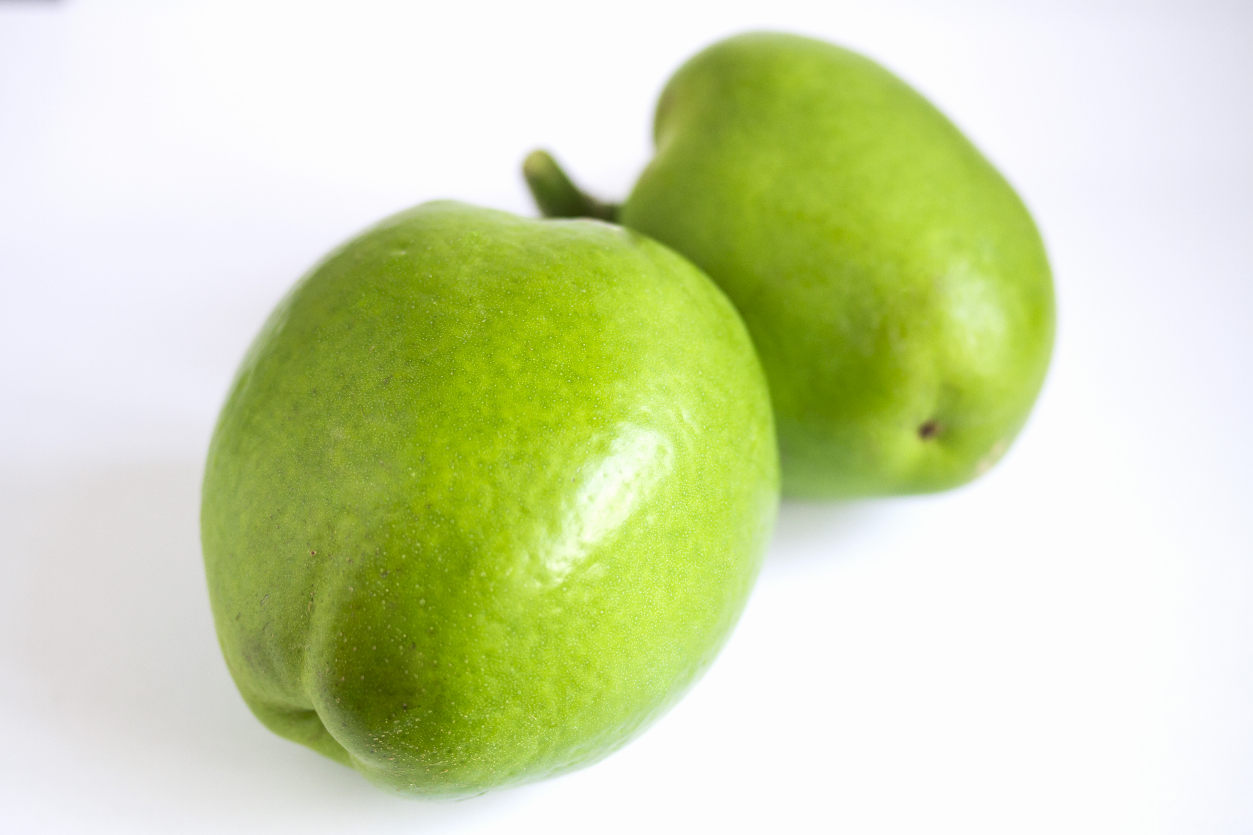 White sapote